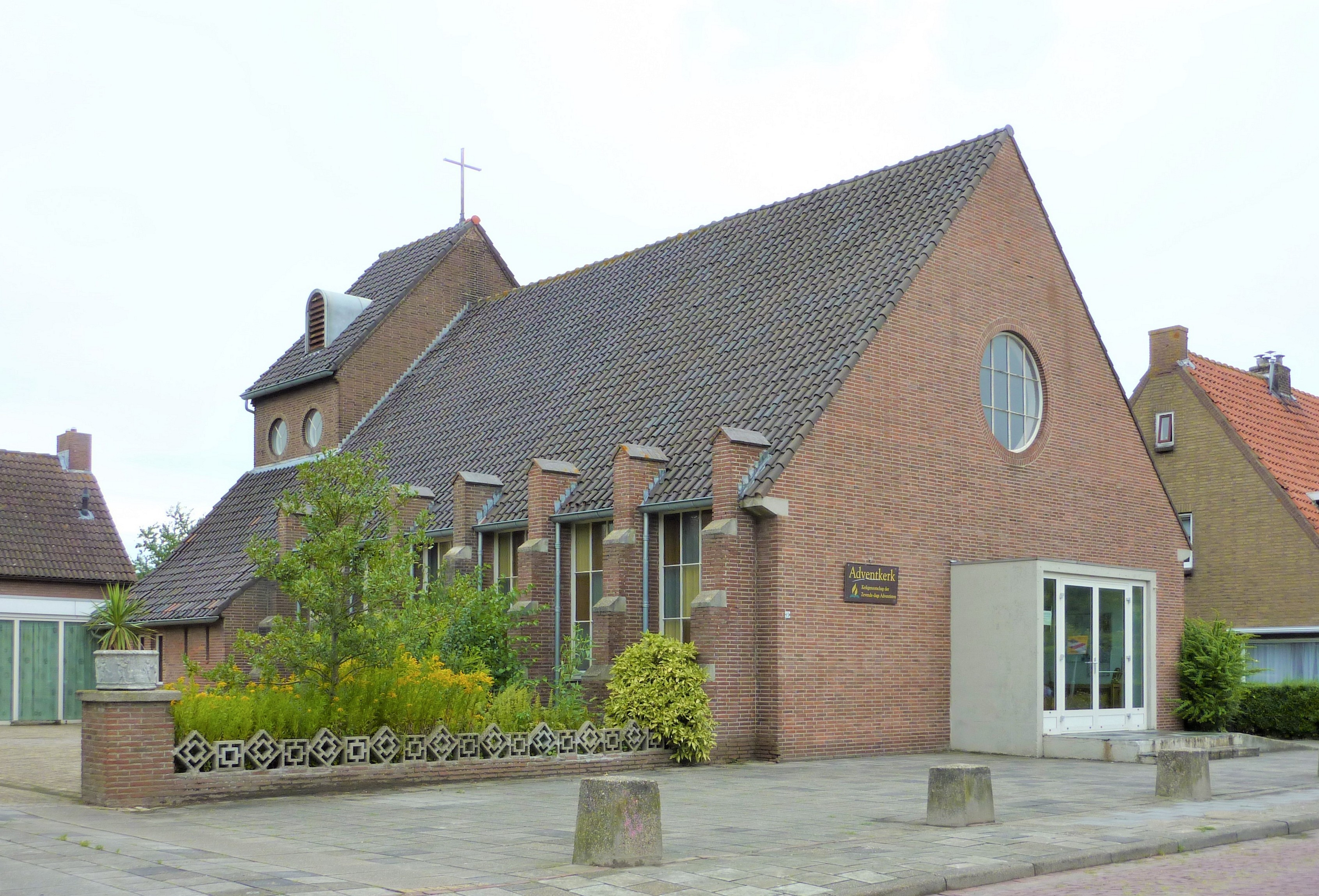 Sint Martinus (West-Souburg), now Adventkerk (Vlissingen, Kerklaan 19)